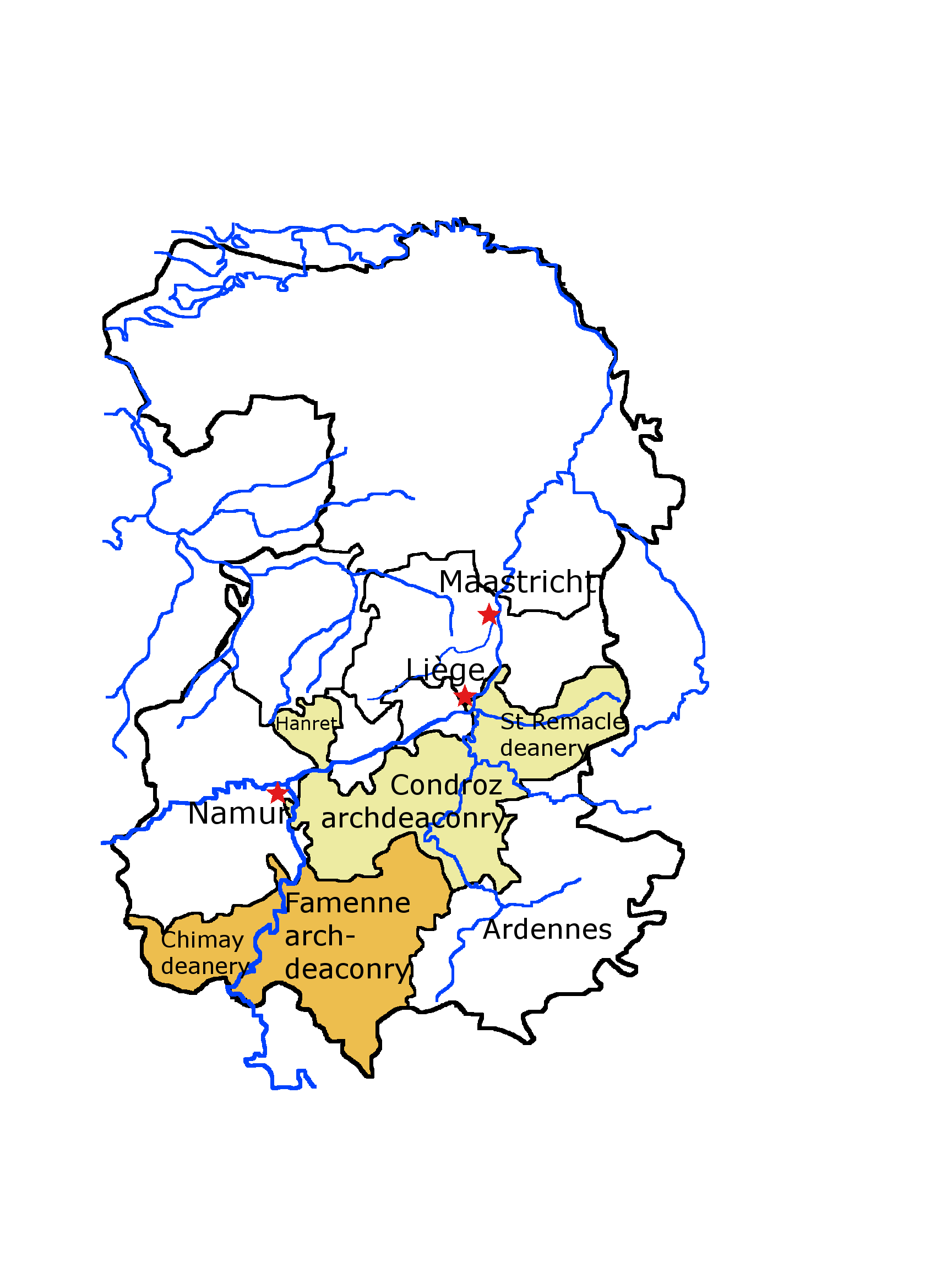 This article shows medieval church jurisdictions under the bishop of Liège in what is now Belgium, with a focus upon the deaconeries of Condroz and Famenne.